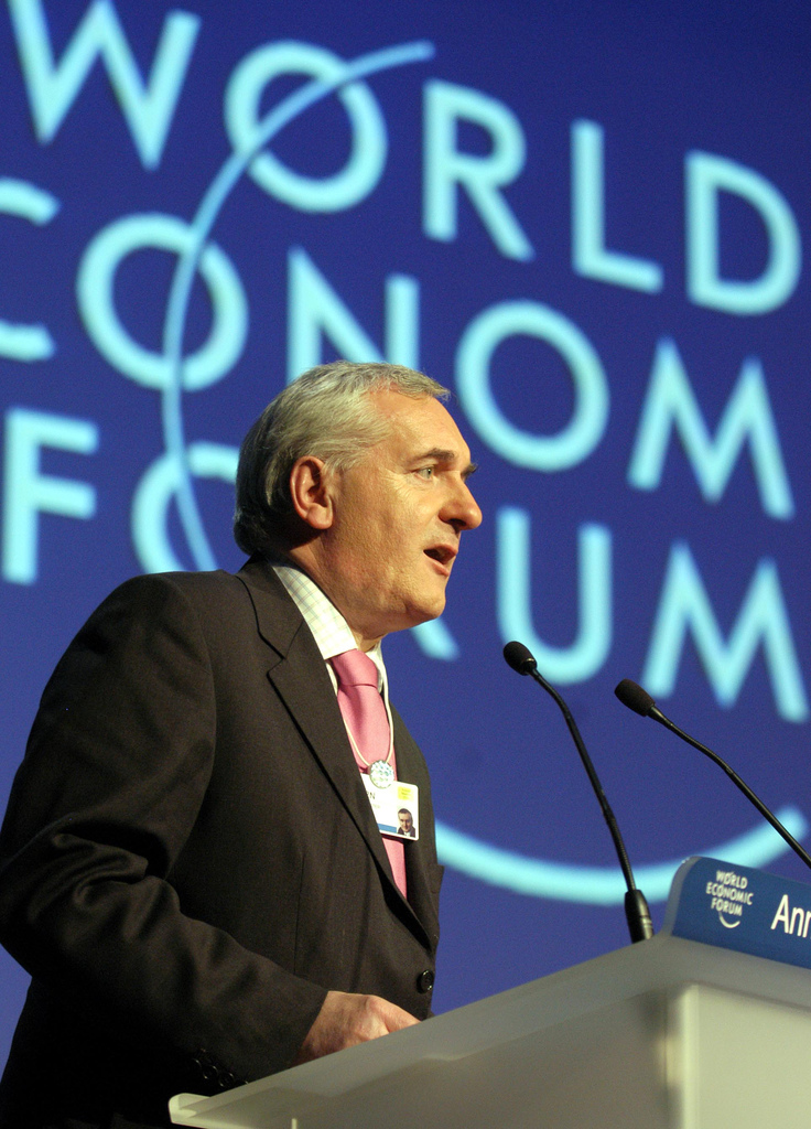 DAVOS/SWITZERLAND, 24JAN04 - Bertie Ahern, Taoiseach (Prime Minister) of Ireland and President of the Council of the European Union, captured during the session 'Special Address by the President of the Council of the Council of the European Union' at the Annual Meeting 2004 of the World Economic Forum in Davos, Switzerland, January 24, 2004. Copyright by World Economic Forum by E.T. Studhalter